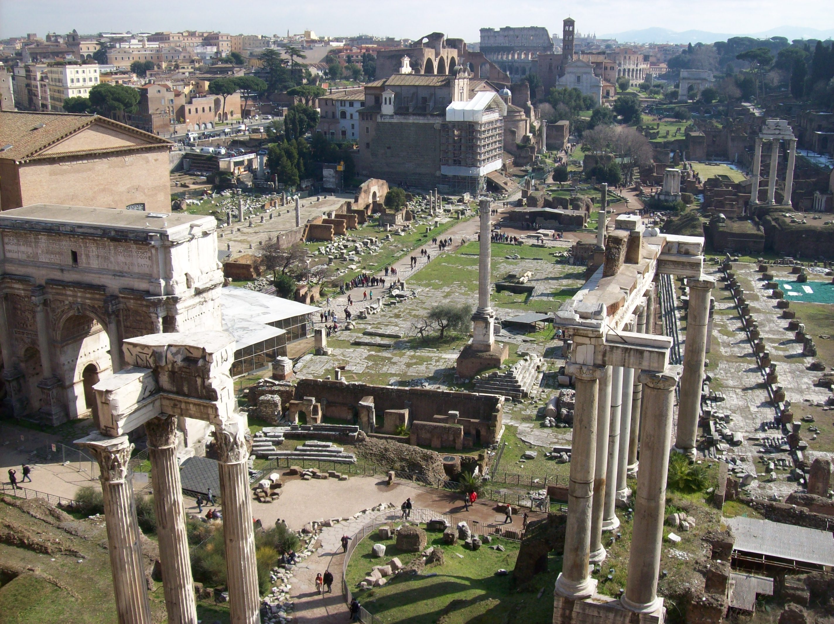 The Roman Forum seen from a window of the Palazzo Senatorio